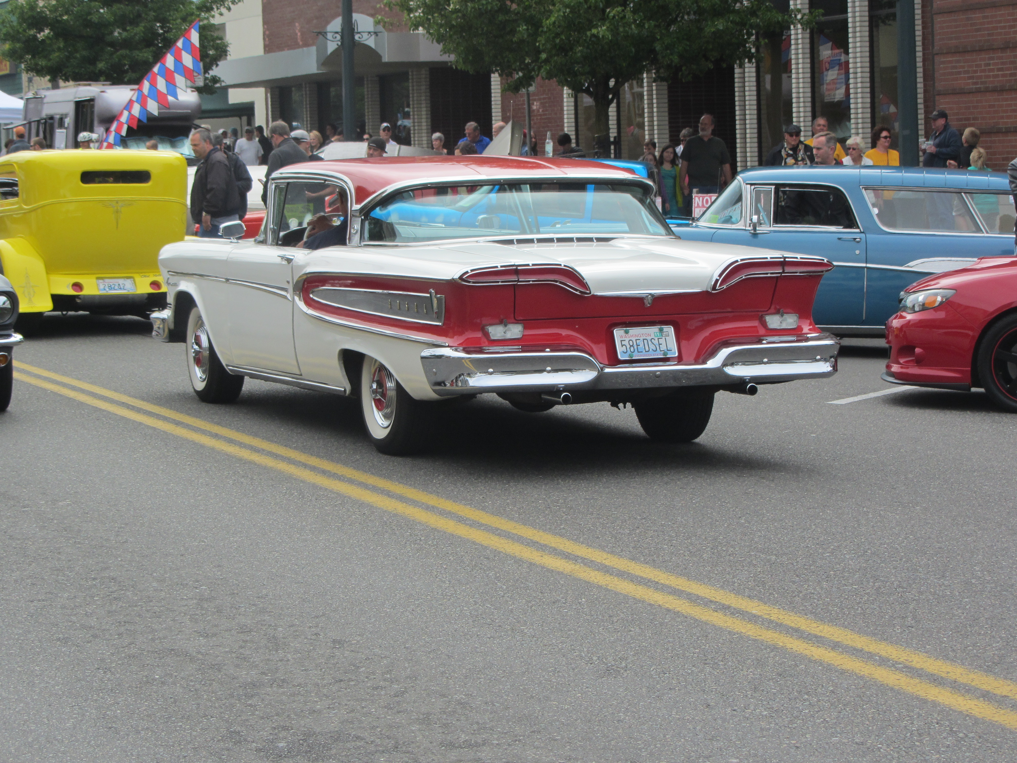 Colby Avenue, Everett, Washington The 1958 Edsel was the only year with two completely different size cars. The Corsair and Citation were built on the Mercury body, though it basically looks like the smaller Ranger and Pacer models.